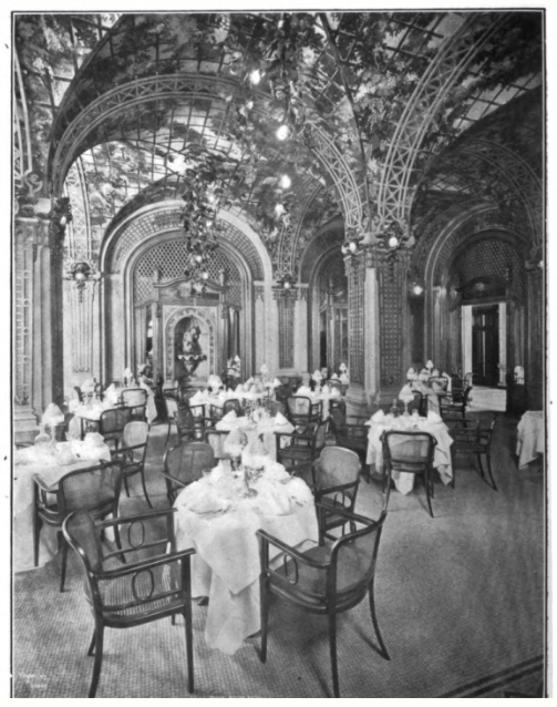 Tea room of Prince George Hotel as originally built, 14 East 28th Street, New York City. Built 1904; published in 1906.